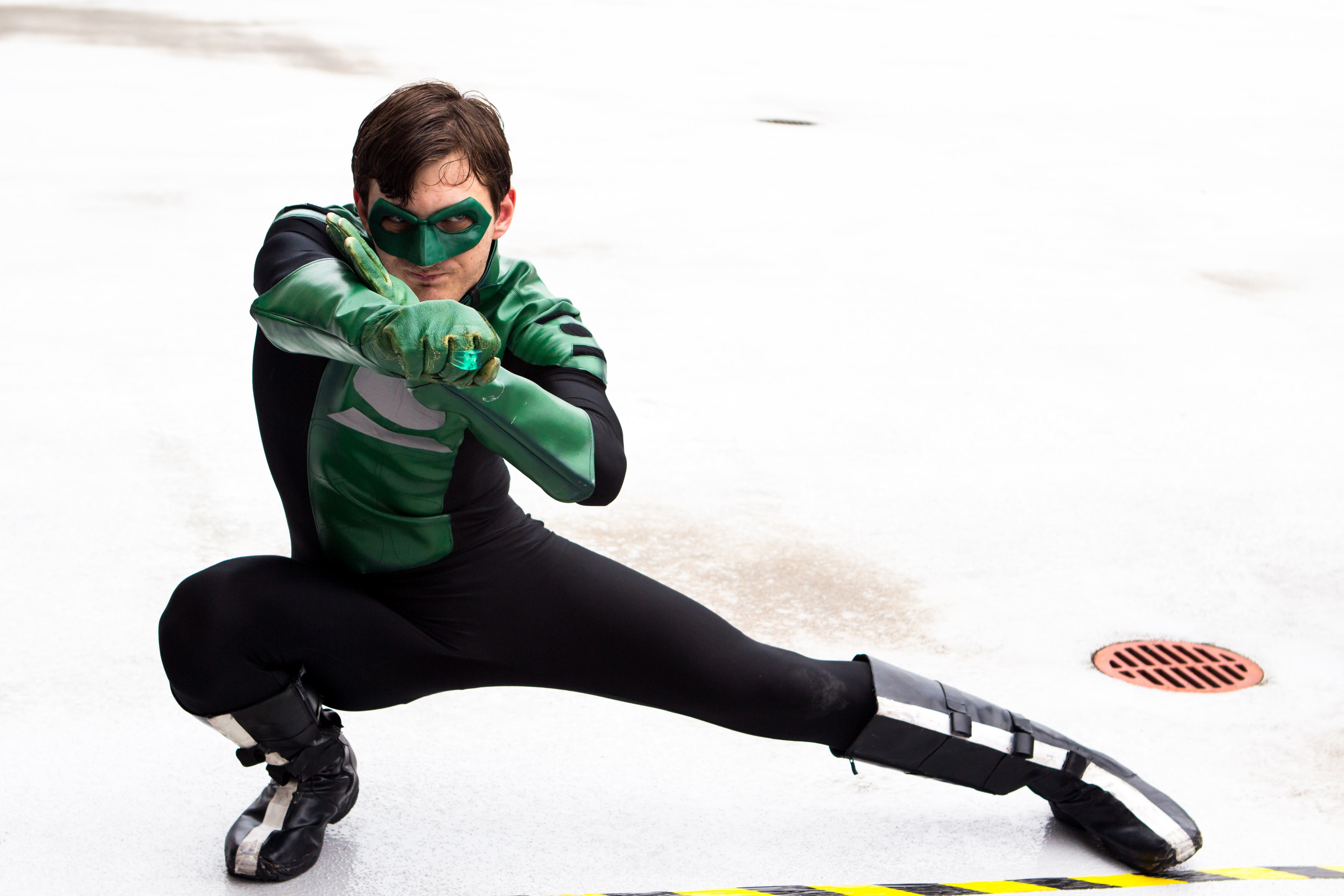 Cosplay of Green Lantern, Kyle Rayner, (from DC Comics) at Dragon*Con 2013.